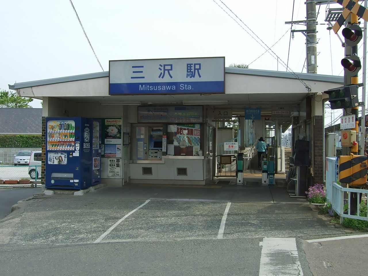 Mitsusawa Station, Nishitetsu Tenjin Omuta Line.